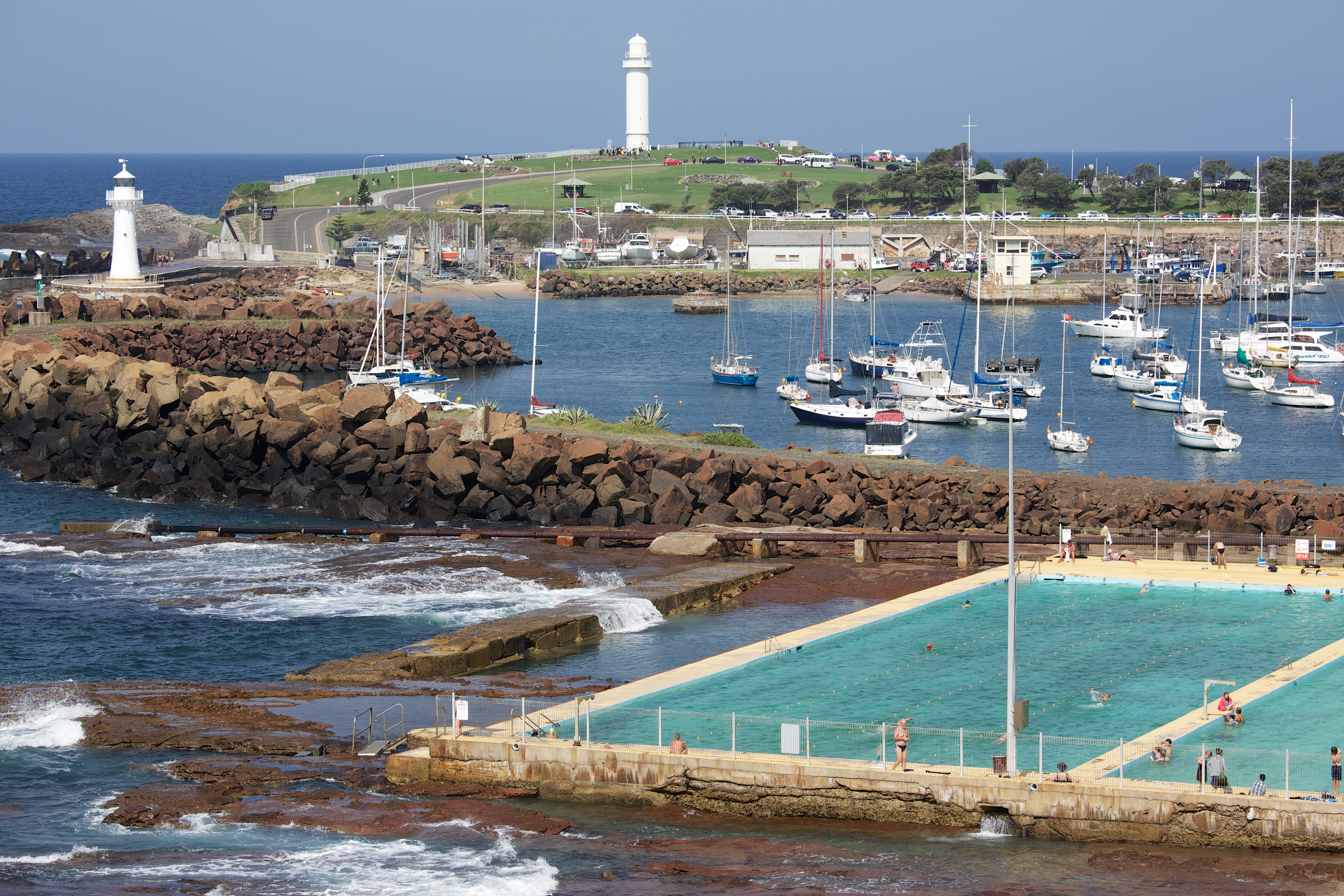 Wollongong Breakwater Lighthouse, also known as Wollongong Harbour Lighthouse, is a historic lighthouse situated on the southern breakwater of Wollongong Harbour, in Wollongong, a coastal city south of Sydney, New South Wales. Wikipedia